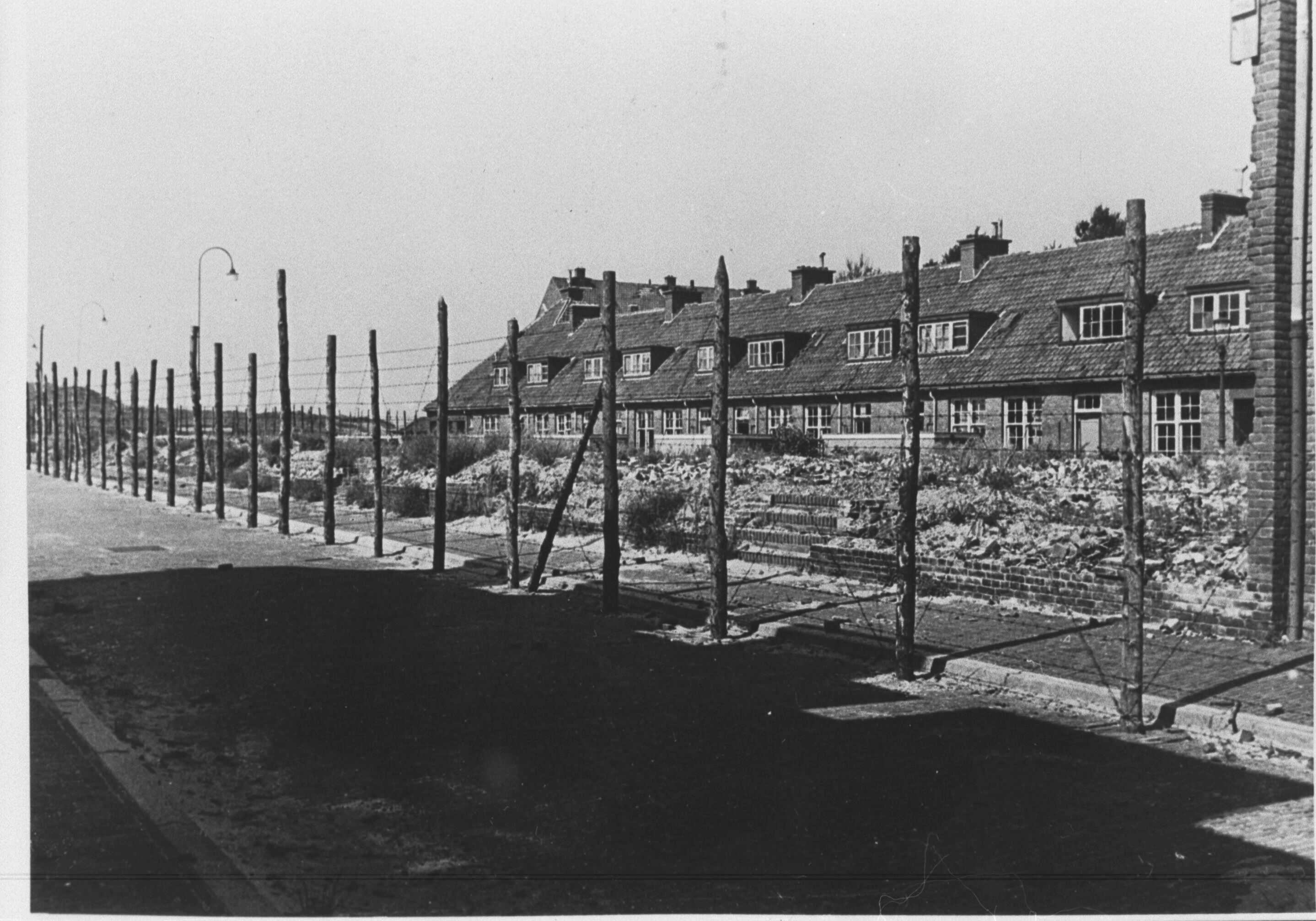 Internment camp Duindorp, The Hague. After the German occupation, thousands of suspects of war crimes were detained here for investigations and trials by the Dutch war courts.